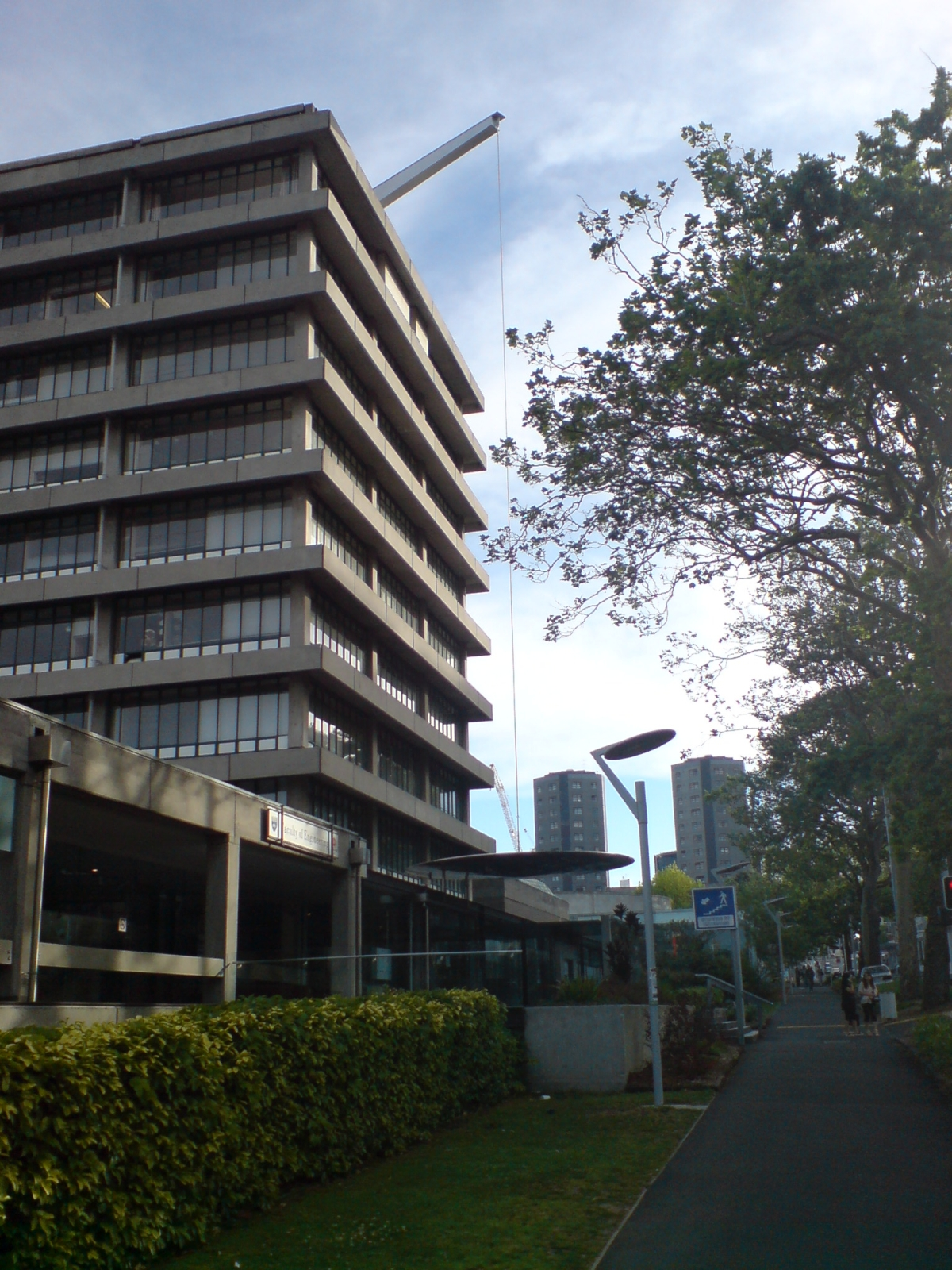 The Faculty of Engineering / School of Engineering at the UoA in Auckland, New Zealand. Looking southwards at the hanging disk (sadly it's not fully free-hanging - it has some supports).